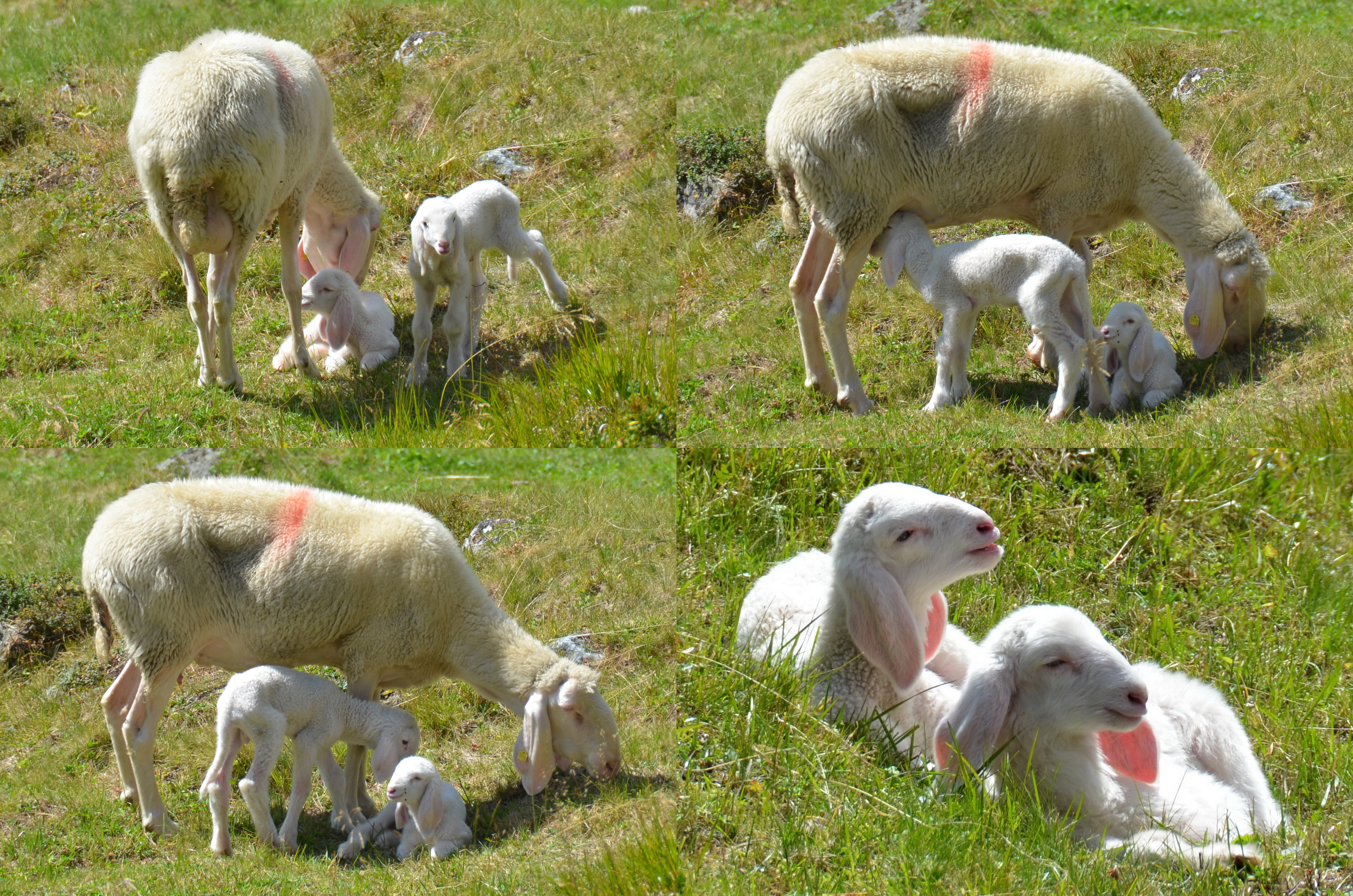 Traditional Otztaler sheep with 2 newborn lambs